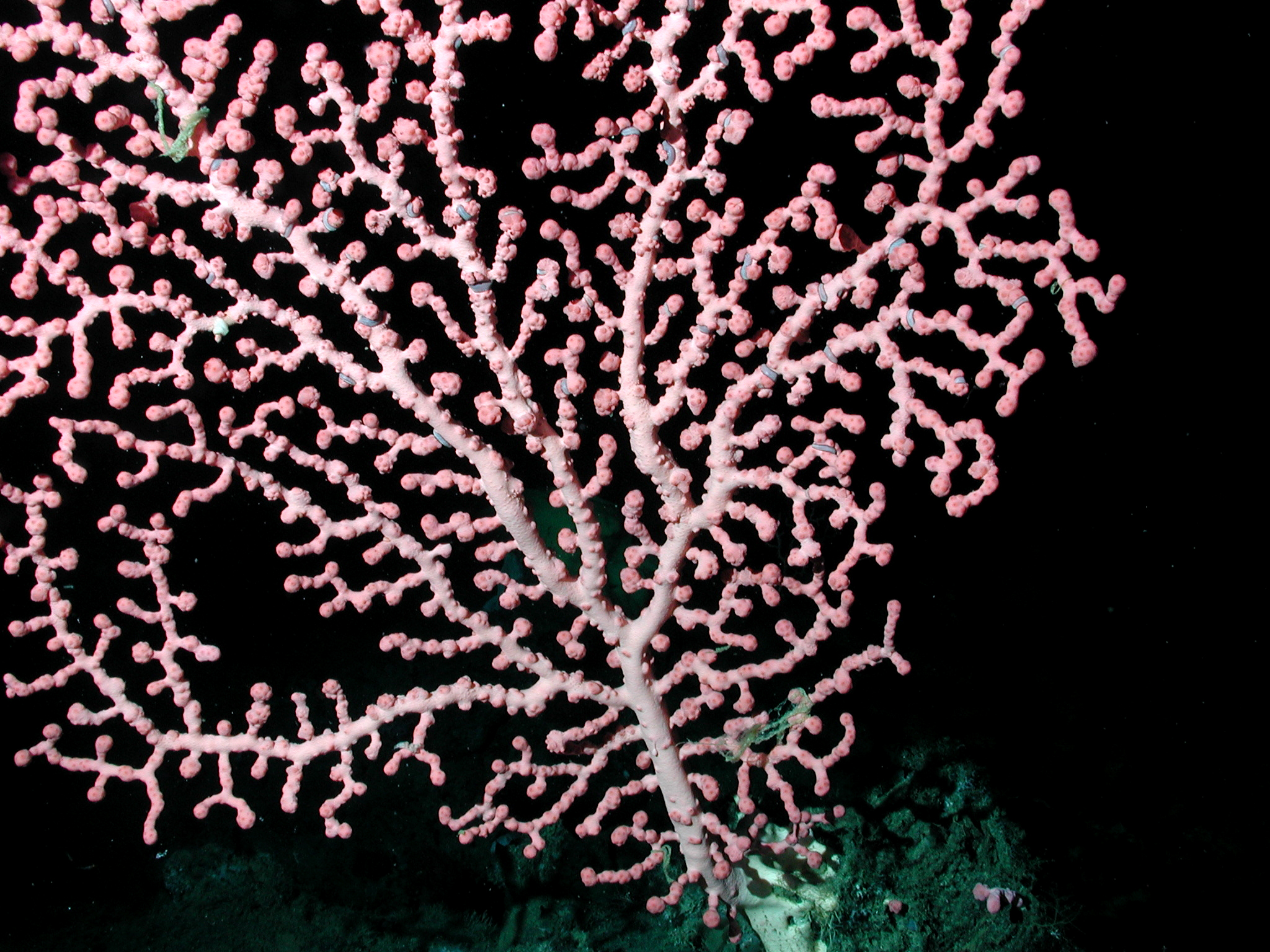 Bubblegum coral (Paragorgia arborea) at 1257 meters water depth. Small blue scale worms (Family Polynoidae) were often associated with Paragorgia arborea. California, Davidson Seamount